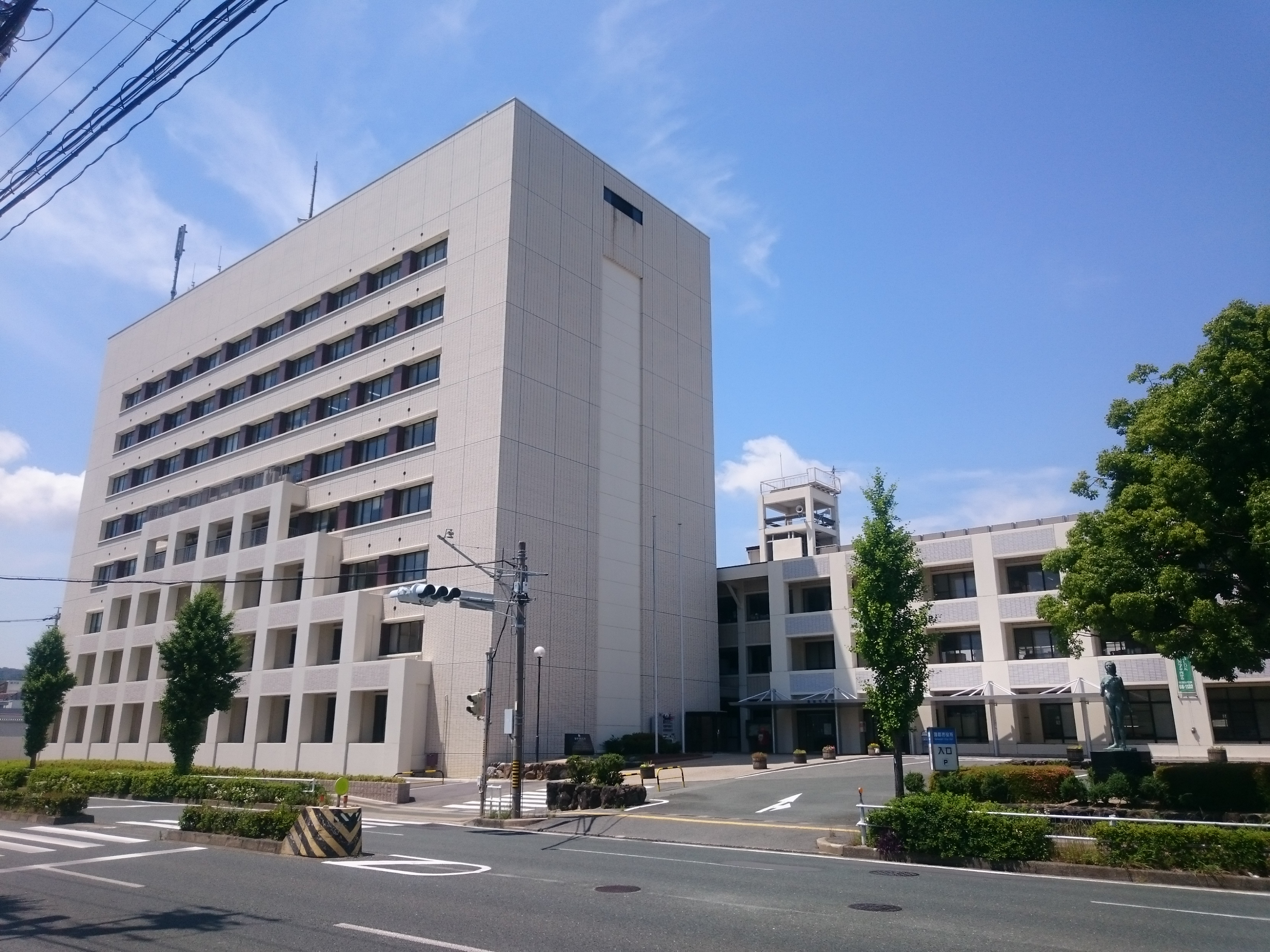 Gamagori City Hall (蒲郡市役所 Gamagōri Shiyakusho), located at 17-1 Asahi-machi, Gamagori, Aichi, Japan